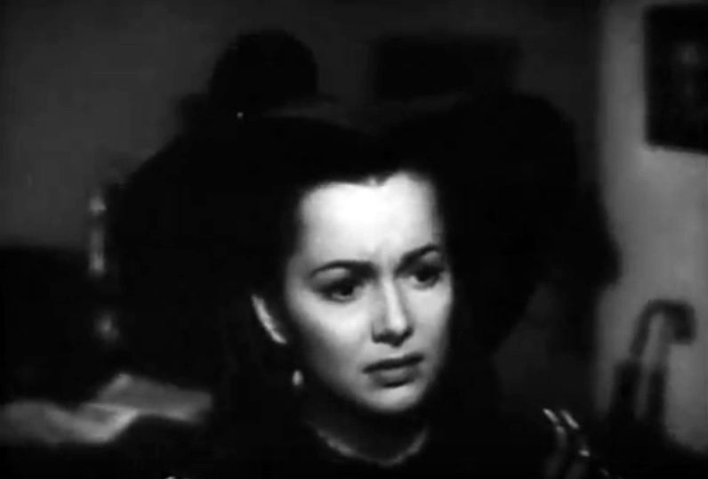 Cropped screenshot of Olivia de Havilland from the trailer for the film Devotion (1946).